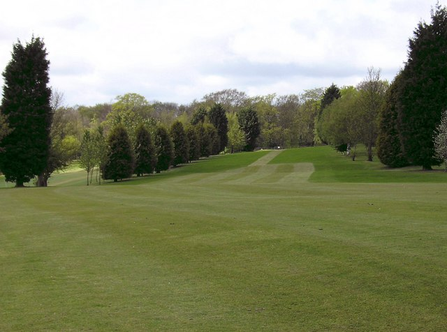 Louth Golf Course The footpath from the old A157 heads towards Hubbards Hills and crosses the course en-route. This is the view of one of the fairways looking north.